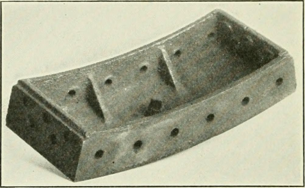 Identifier: shieldcompressed00hewerich Title: Shield and compressed air tunneling Year: 1922 (1920s) Authors: Hewett, Bertram Henry Majendie Johannesson, Sigvald, joint author Subjects: Tunneling Publisher: New York [etc.] McGraw-Hill book Co. Text Appearing Before Image: 96 SHIELD TUNNELING B. CAST IRON LINING 5. General Description.—In its usual form cast iron lining is acylindrical structure with a circular cross-section Iniilt up of aseries of rings, and each ring is made of a number of sections. Figure 27 shows a cast iron lining erected. Each segmenthas a web or skin conforming to the curvature of the tunnel andprovided with flanges along its four edges. When erected theskin forms an enveloping cylinder which is stiffened by the cir-cumferential flanges. The segments and rings are connectedby means of bolts through the flanges. Text Appearing After Image: Fig. 28.—One segment of a cast iron lining. 6. General Details (Fig. 28).—In British linings the skinhas a uniform thickness from flange to flange while in Americanlinings the thickness is often increased toward the flanges. Forcasting reasons the circumferential flanges are tapered and theend flanges, which are commonly called the cross or horizontalflanges, are usually of identical cross-section. To secure fullbearing for the bolt heads and nuts on the tapered flanges thebolt holes are bossed. To provide means for waterproofing thejoints the flanges are recessed along their inner edges so as toform, when erected, a groove between adjacent segments whichmay be filled with a waterproofing material. Exceptions to thisarrangement will be mentioned later. Triangular bracings orfeathers are frequently used to stiffen the flanges against theskin. All intersecting surfaces are filleted. For grouting pur-poses a tapped and plugged hole is generally provided in the skinof each segment. 7.